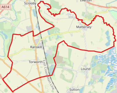 Map of the Ranskill ward of Bassetlaw. This map may be incomplete, and may contain errors. Don't rely solely on it for navigation.